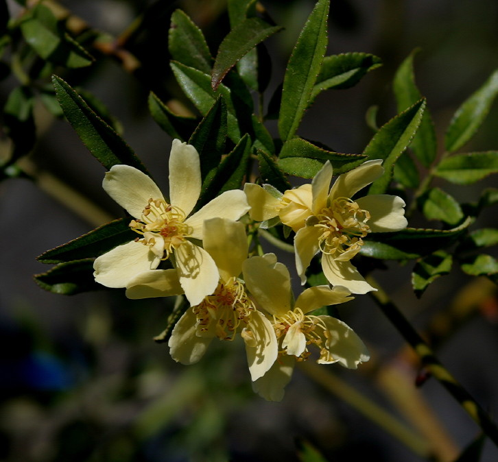 Rosa banksiae lutescens, the single yellow Lady Banks rose